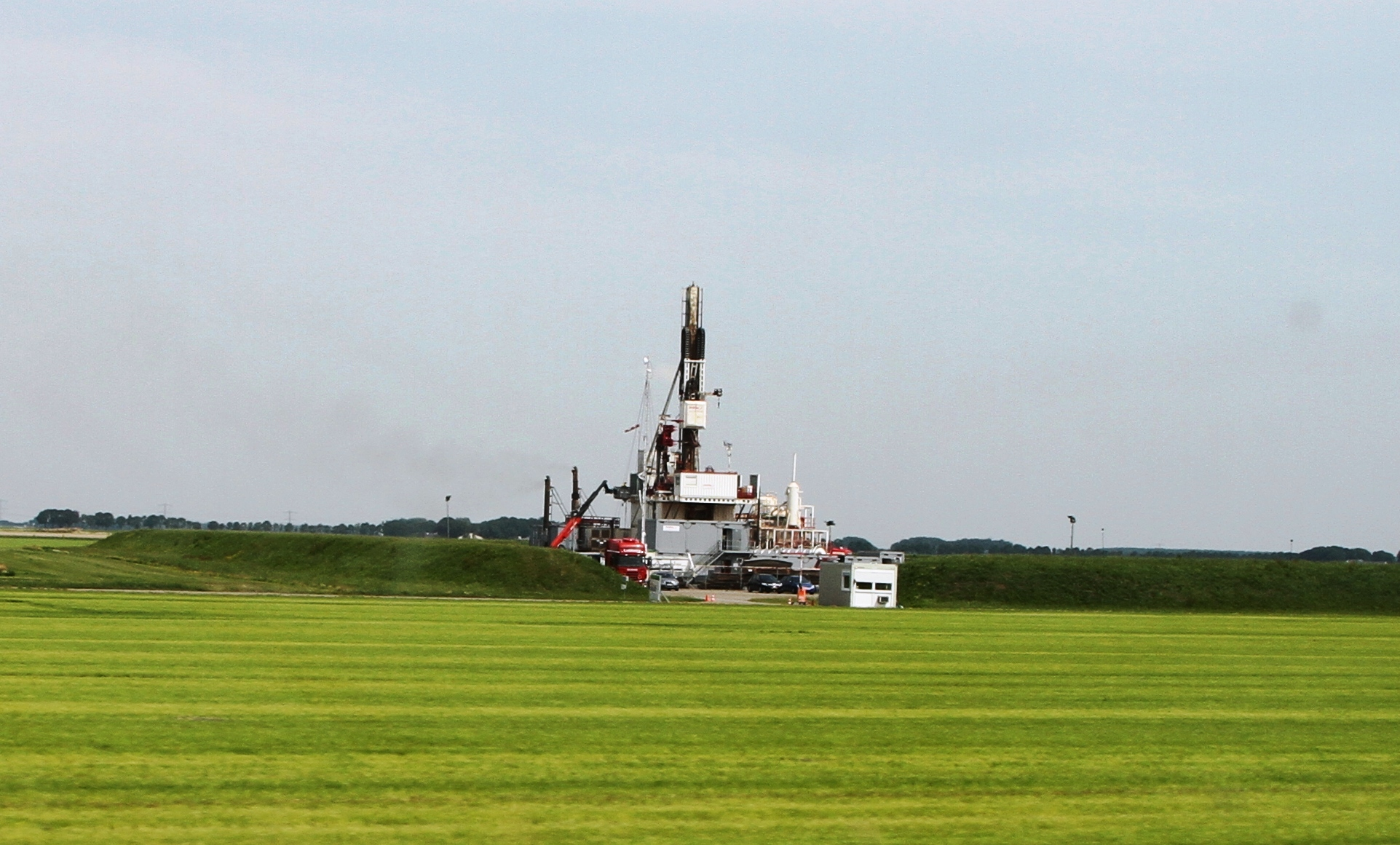 Onshore oil/gas platform in Blijham commune, northeastern Netherlands, very close to Germany border.